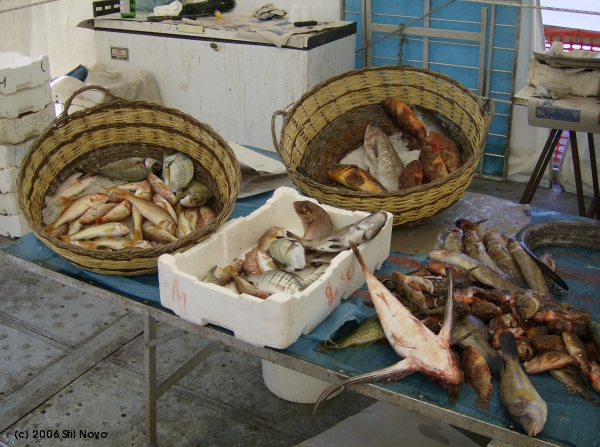 Fish at the San Benedetto market in Cagliari.